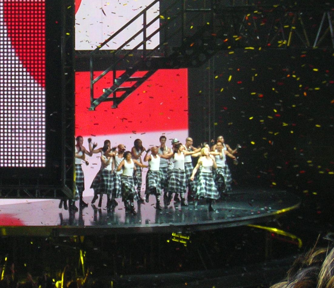 Madonna performing "Holiday"